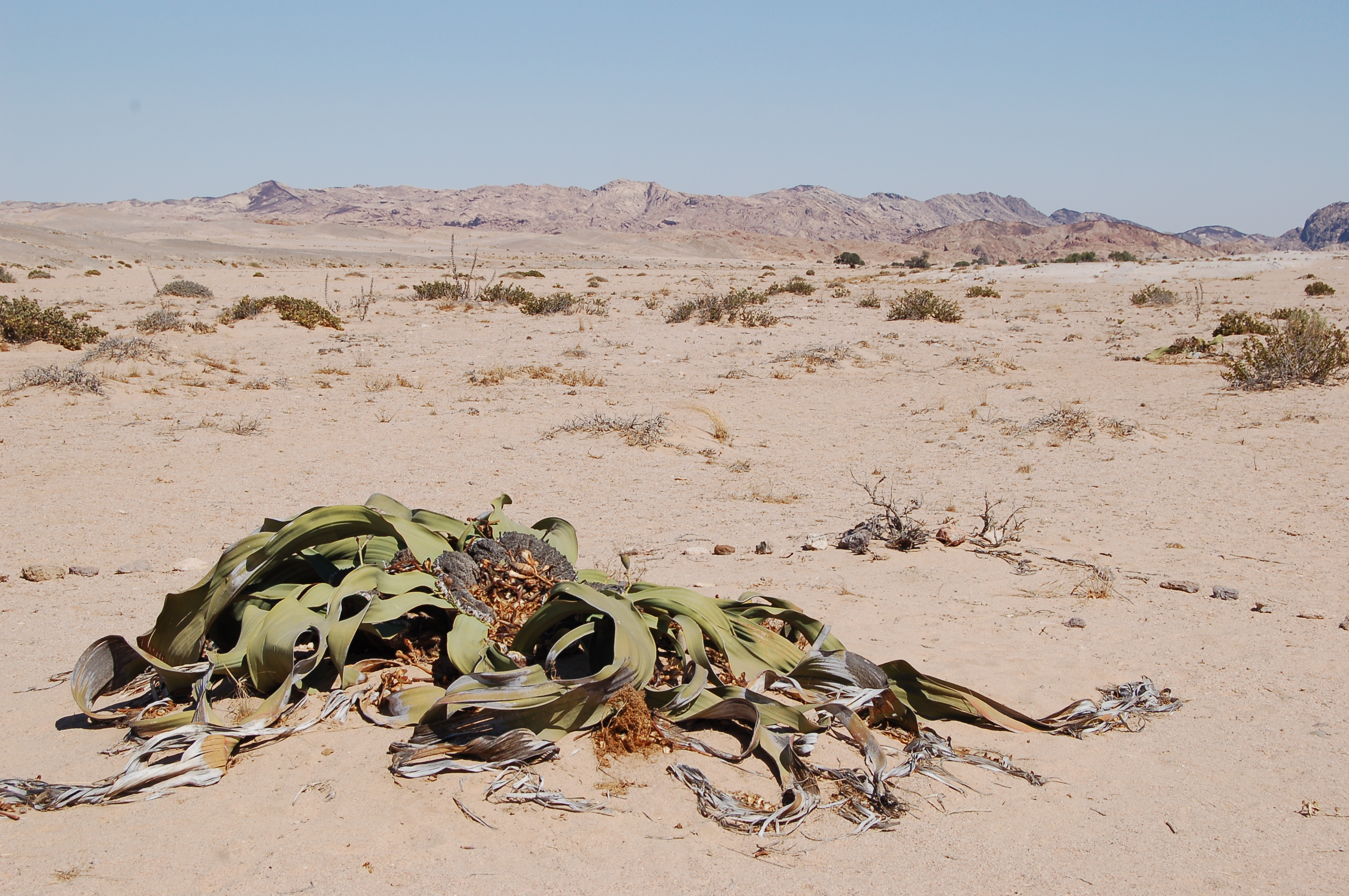 Welwitschia mirabilis, Naukluft, Namibia